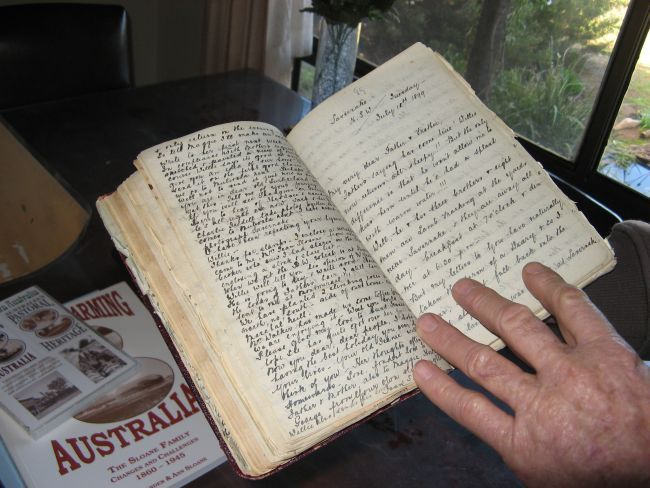 Savernake Station: Granmother's diaries held at Savernake